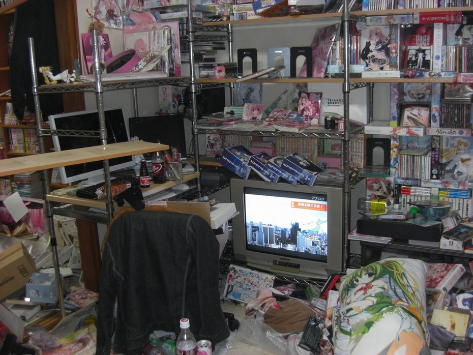 The mortal enemy for an otaku room - photo taken just after the 3.11 Earthquake. View more at